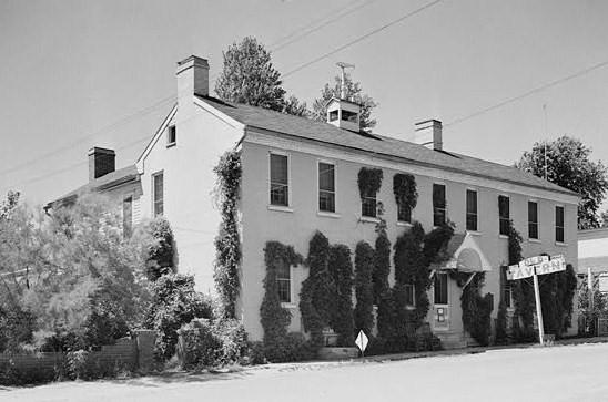 Houston Tavern, Arrow Rock State Park, Arrow Rock (Saline County, Missouri) - cropped This file comes from the Historic American Buildings Survey (HABS), Historic American Engineering Record (HAER) or Historic American Landscapes Survey (HALS). These are programs of the National Park Service established for the purpose of documenting historic places. Records consist of measured drawings, archival photographs, and written reports. This tag does not indicate the copyright status of the attached work. A normal copyright tag is still required. See Commons:Licensing for more information. English | +/− This work is in the public domain in the United States because it is a work prepared by an officer or employee of the United States Government as part of that person’s official duties under the terms of Title 17, Chapter 1, Section 105 of the US Code. See Copyright. Note: This only applies to original works of the Federal Government and not to the work of any individual U.S. state, territory, commonwealth, county, municipality, or any other subdivision. This template also does not apply to postage stamp designs published by the United States Postal Service since 1978. (See § 313.6(C)(1) of Compendium of U.S. Copyright Office Practices). It also does not apply to certain US coins; see The US Mint Terms of Use. This file has been identified as being free of known restrictions under copyright law, including all related and neighboring rights.